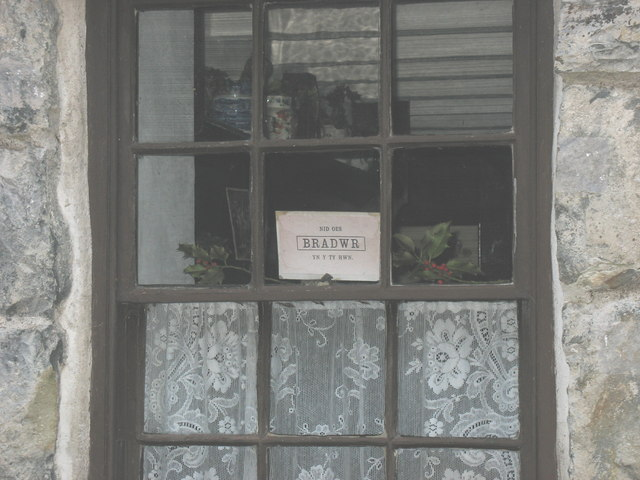 There is no traitor in this house A sign in the window of No 2 Fron Haul dating back to the 1900-1903 Penrhyn Quarry Strike, the longest in British Trade Union history. Pressurised by their vicars, Anglican quarrymen progressively broke rank and went back to work. This led to civil disturbances quelled only by the military. It became a practice among the great majority who stood firm to put a sign in the window making it known that 'Nid oes BRADWR yn y ty hwn'. 'There is no TRAITOR in this house'. When the poster disappeared from a window, it was a clear sign that someone from that house had accepted the 'Punt y Gynffon' - the 'Lacky's Pound'- so called because Lord Penrhyn rewarded each returnee with a golden sovereign.